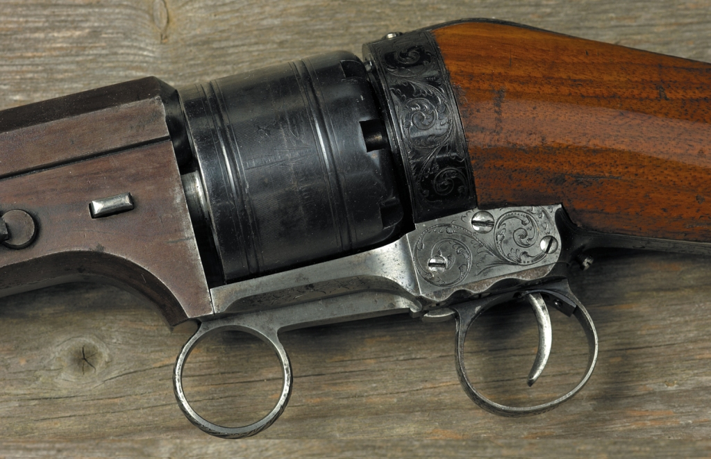 Colt 2nd Paterson Rifle